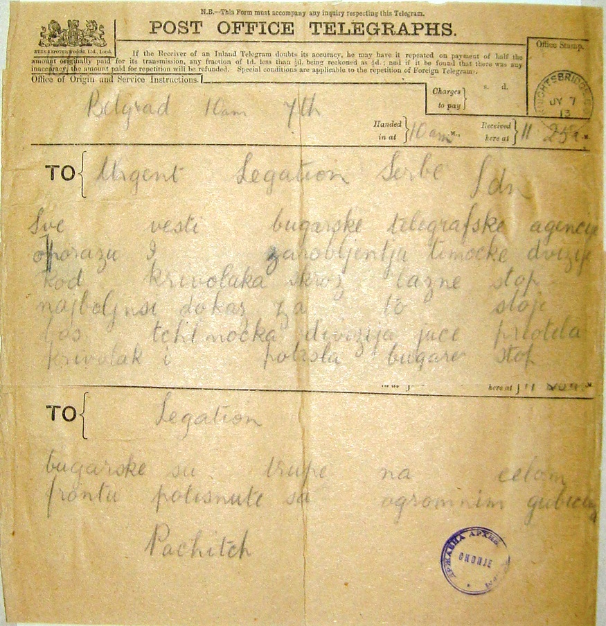 Telegram from Pasic to London, about the success of Timok Division suppressing Bulgarian troops in Krivolak. (June 24, 1913) This media file is produced by Wikipedian in Residence in Category:Wikipedian in Residence at DARM in 2016.